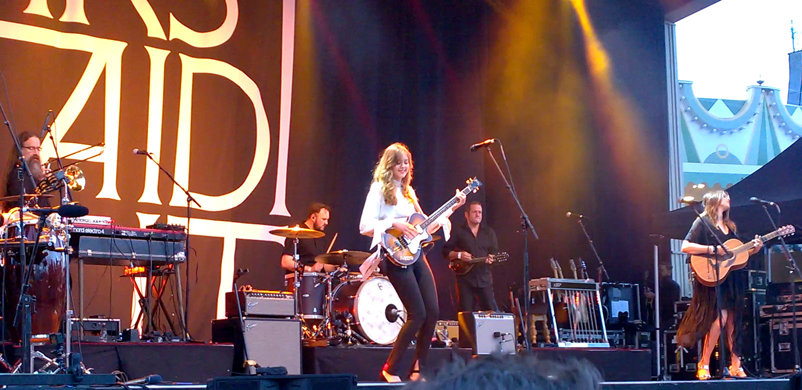 Photo of First Aid Kit (band) concert at Gröna Lund, Stockholm, Sweden 19 June 2017